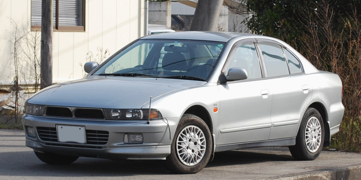 8th generation Mitsubishi_Galant (1996/8 - 1998/8)